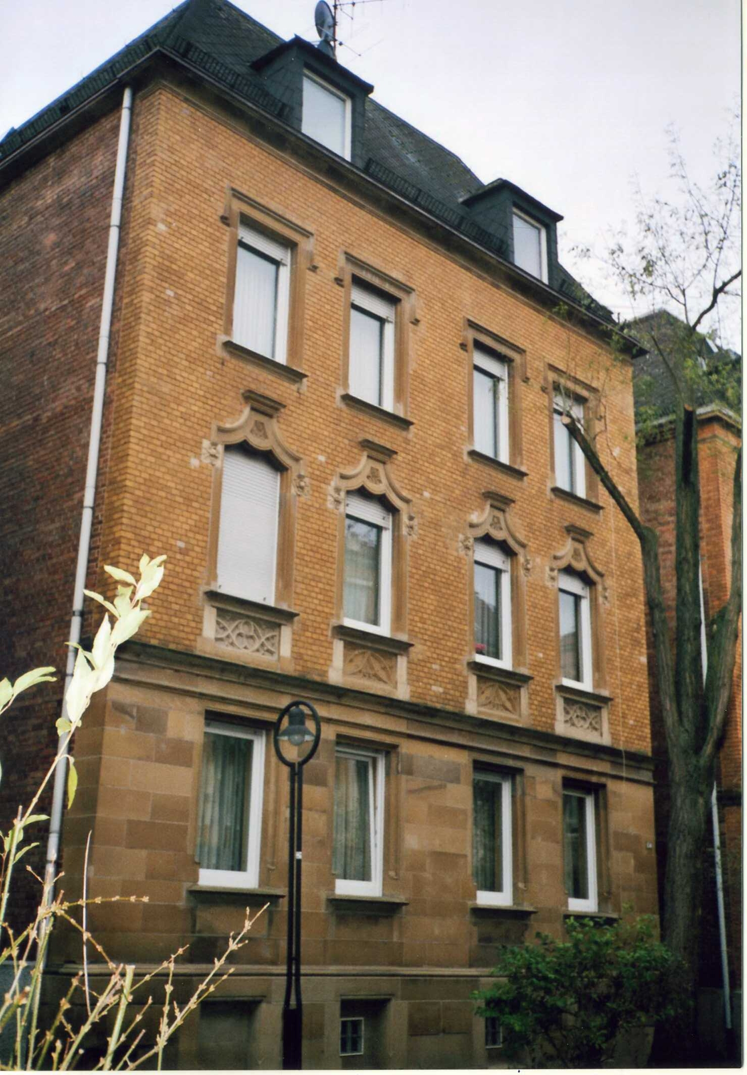 Heilbronn